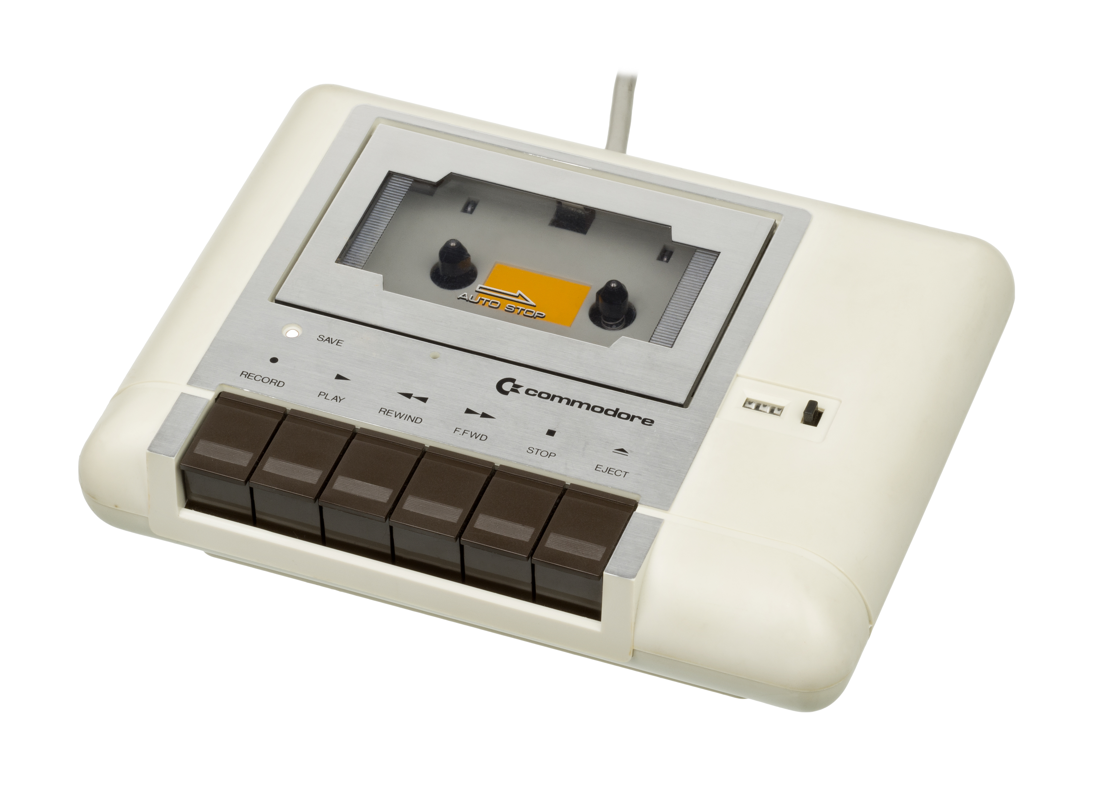 A Commodore 1530 (C2N) Datasette drive for the Commodore line of computers. This made it possible to save and run programs from inexpensive cassette tapes. Shown is a cosmetic variant model.